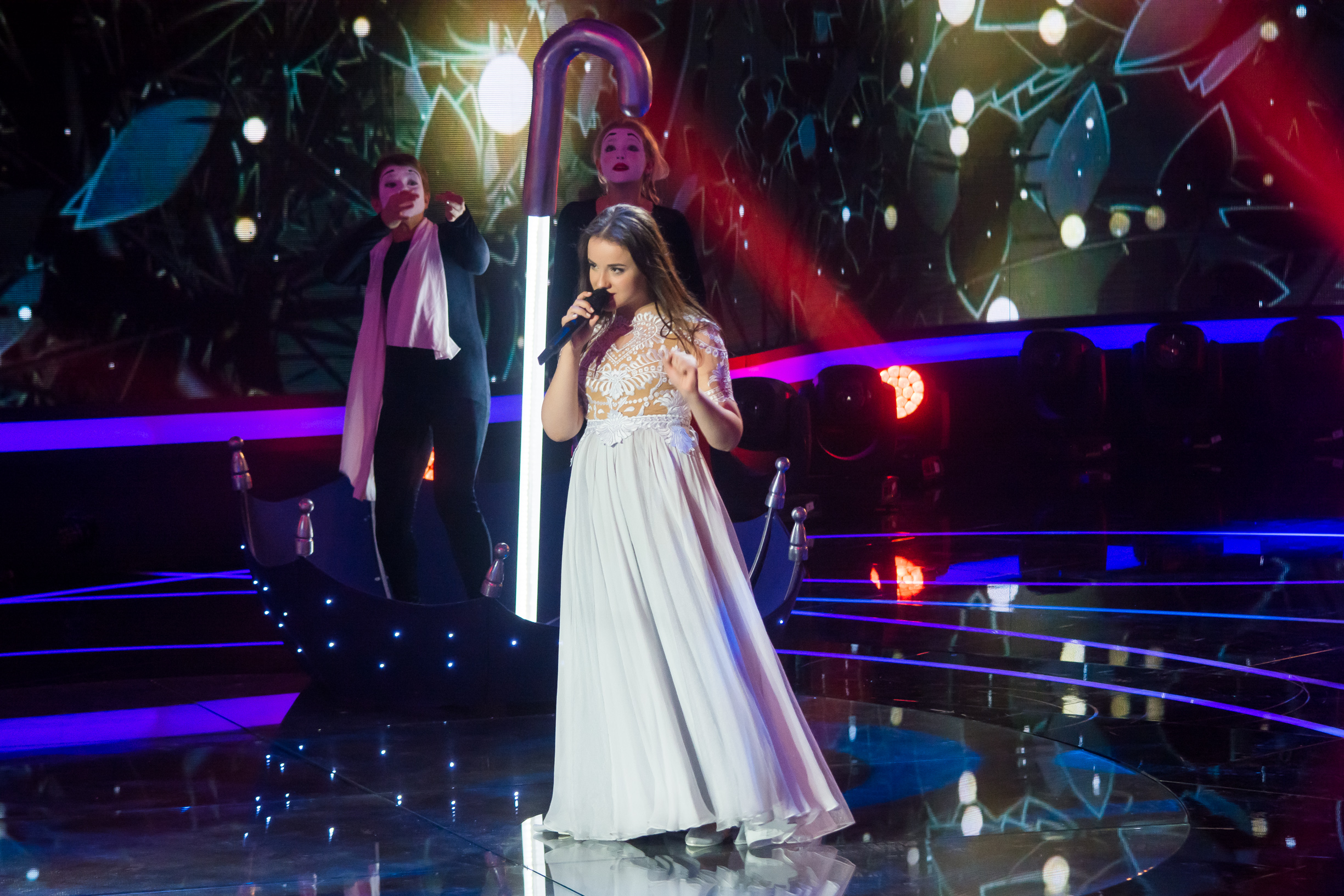 JESC 2016 participant: Sofia Rol (Ukraine)